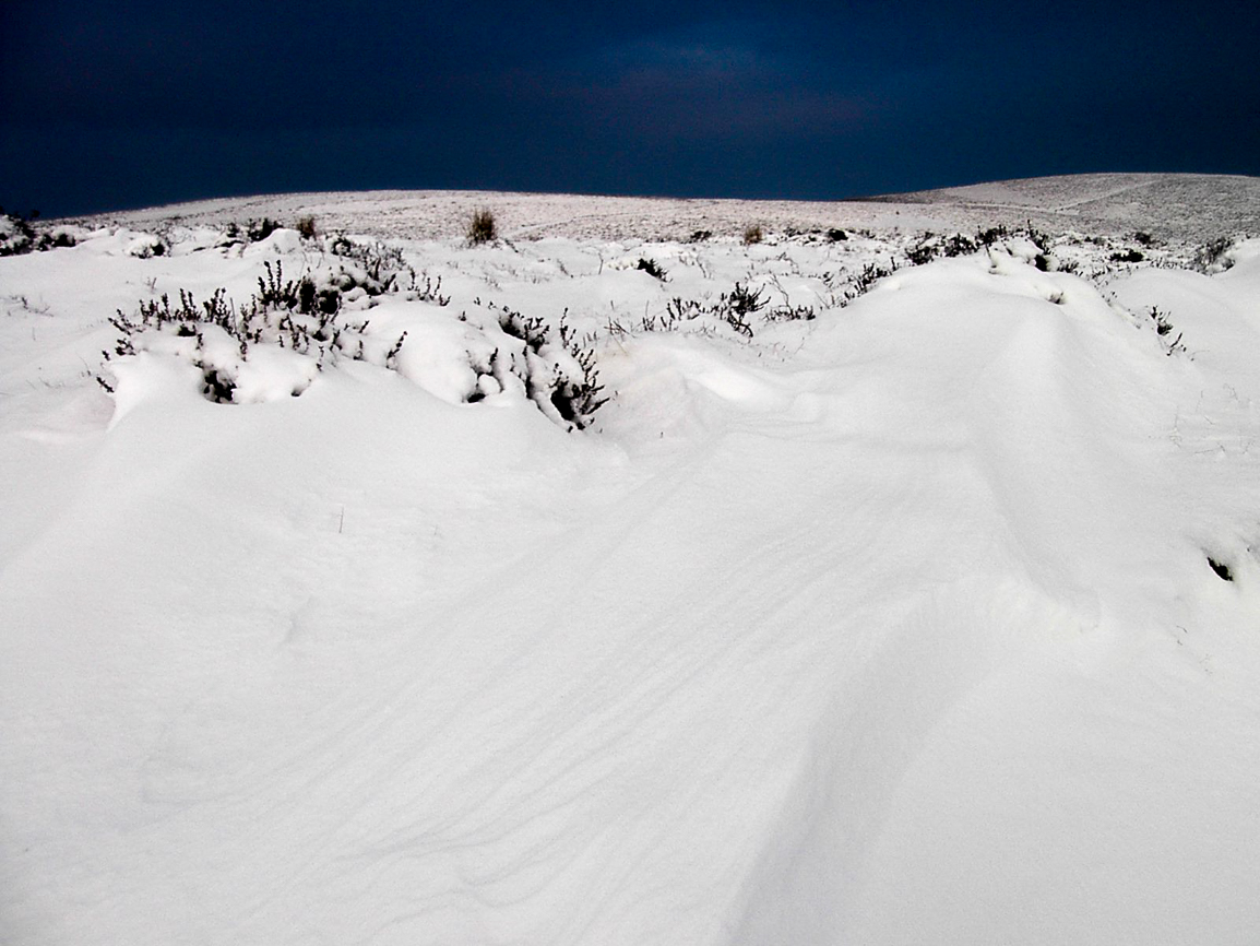 Long Mynd in Shropshire after a snow storm hit the region on 24 February 2005. This shows the Texture of a Snow Drift when formed, with contrast to a dark sky.